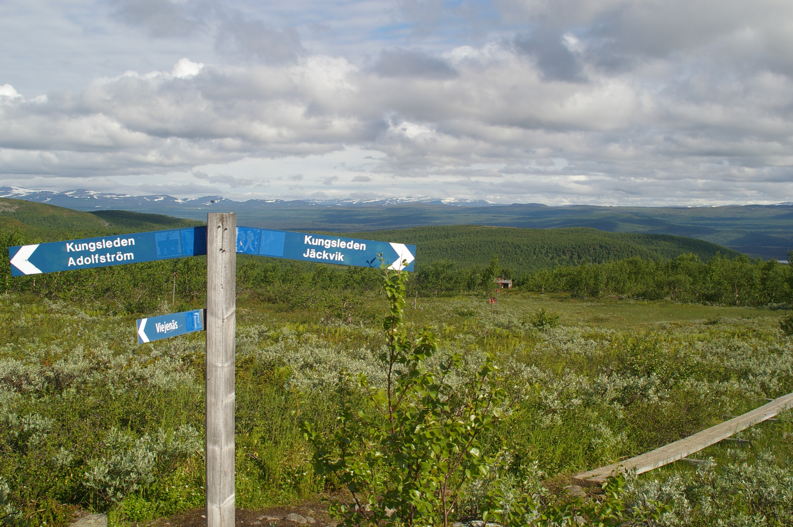 Pieljekaise National Park, a crossroads above Jäckvikem on Kungsleden, view towards east.